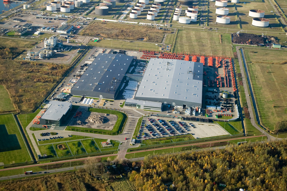 Medium size excavator factory, Training and Demonstration Center